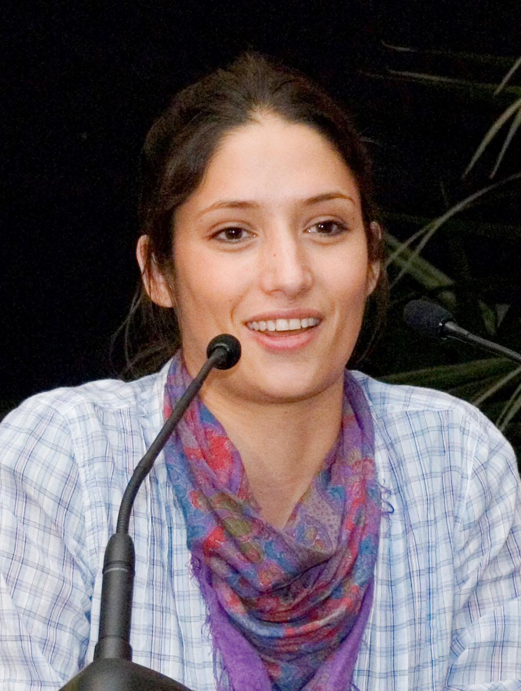 Melanie Winiger at the Public Eye Awards 2008, Davos, Schweiz, © nitsch.ch